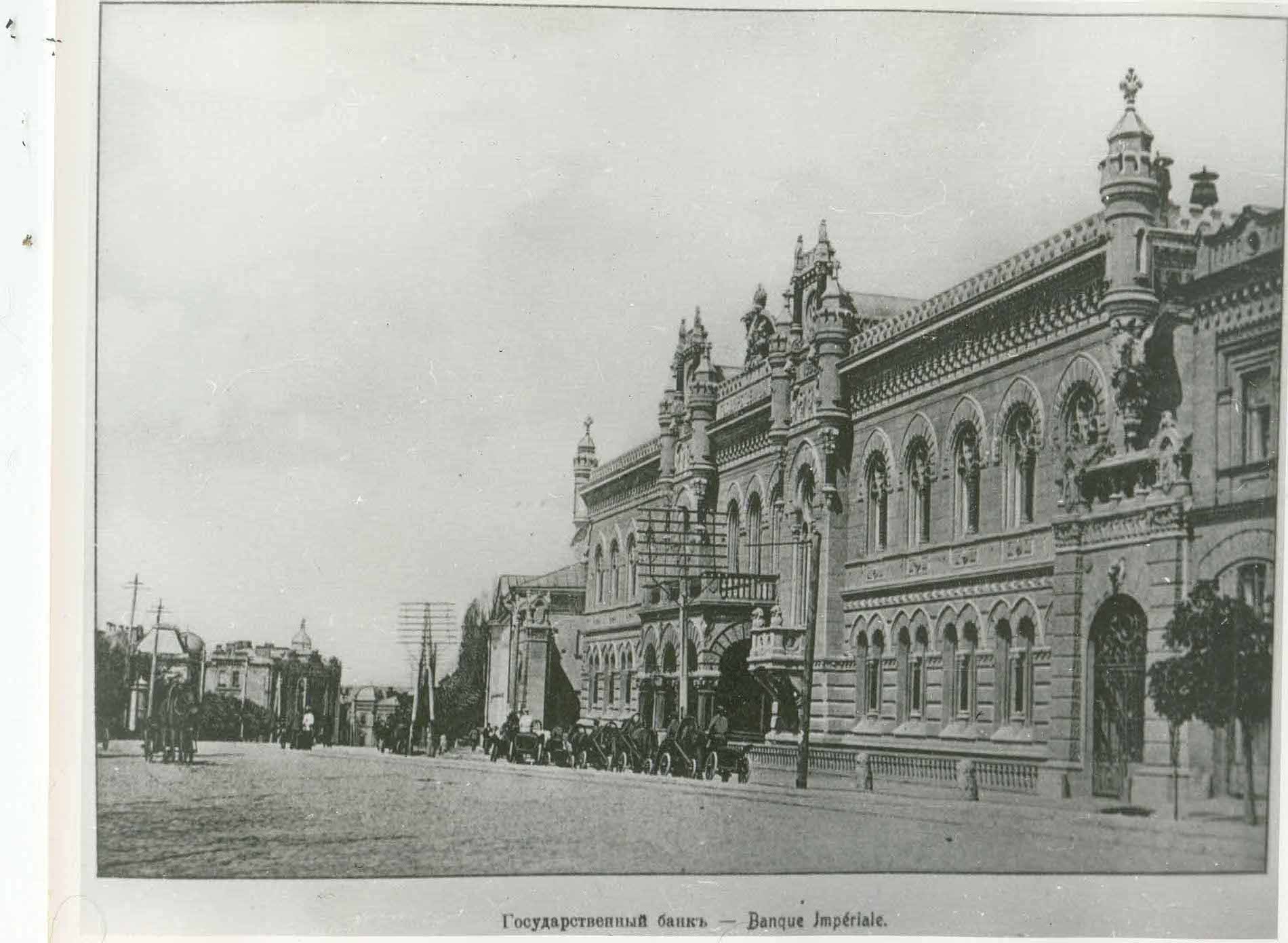 Kiev - National Bank of Ukraine